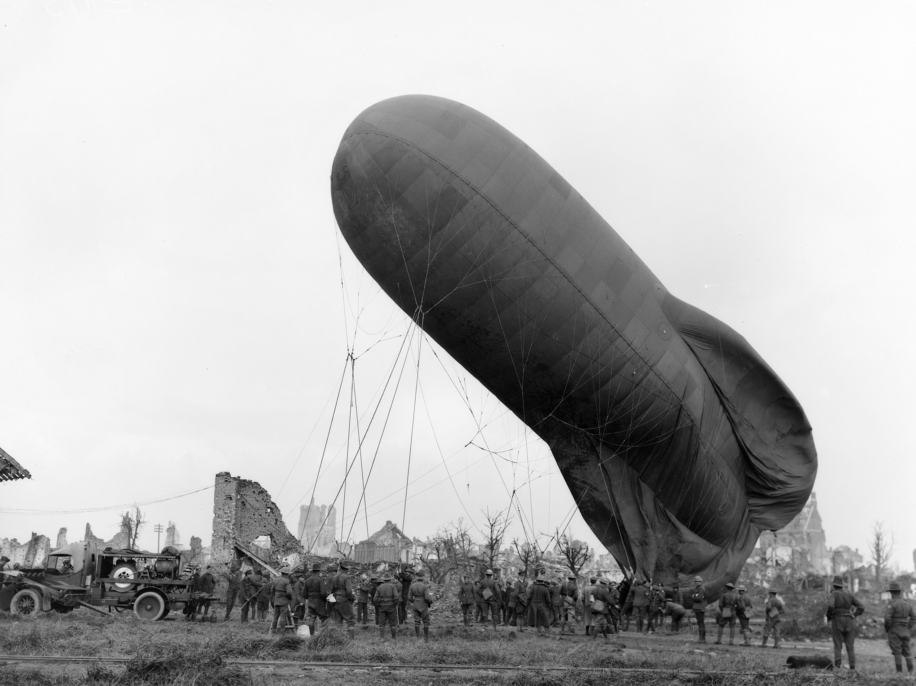 AWM caption : Western Front (Belgium), Ypres Area : An observation balloon about to ascend. Note the vehicle on the left and the large group of unidentified soldiers around the balloon.